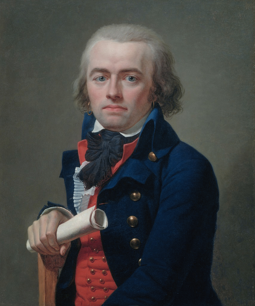 Jean de Bry oil on canvas 65.4 x 54.1 cm ca. 1793